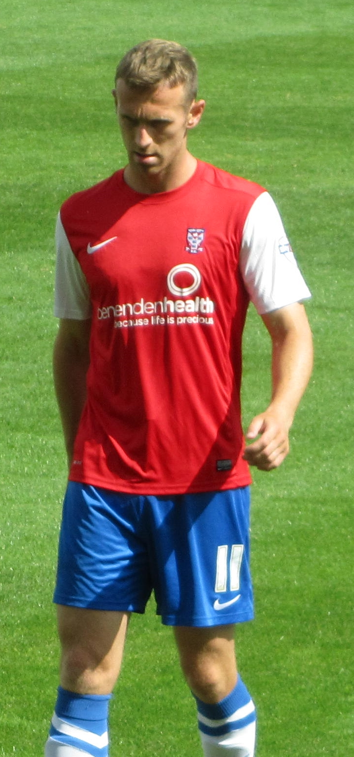 Ryan Jarvis playing for York City against Northampton Town at Bootham Crescent, York on 3 August 2013